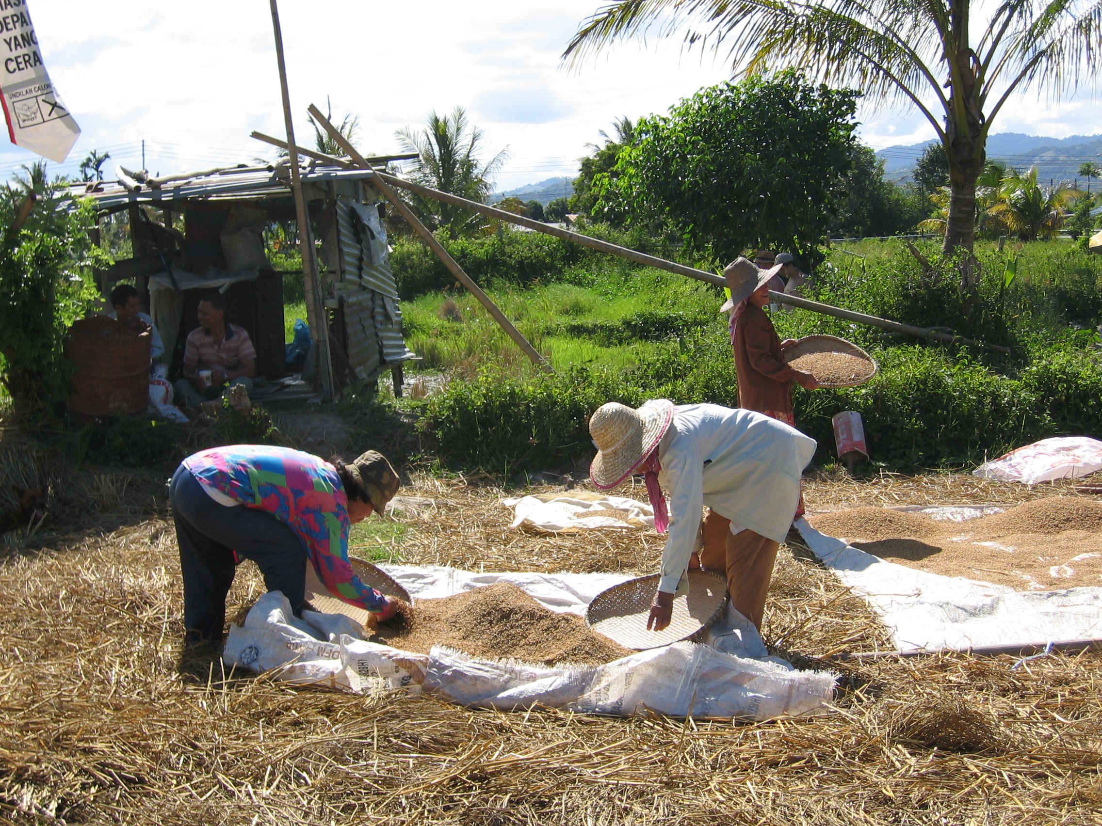 Tambunan. Kampong Tinompok. Farmers winnowing after threshing of padi. Siapa yang kenal dengan INAN ini?